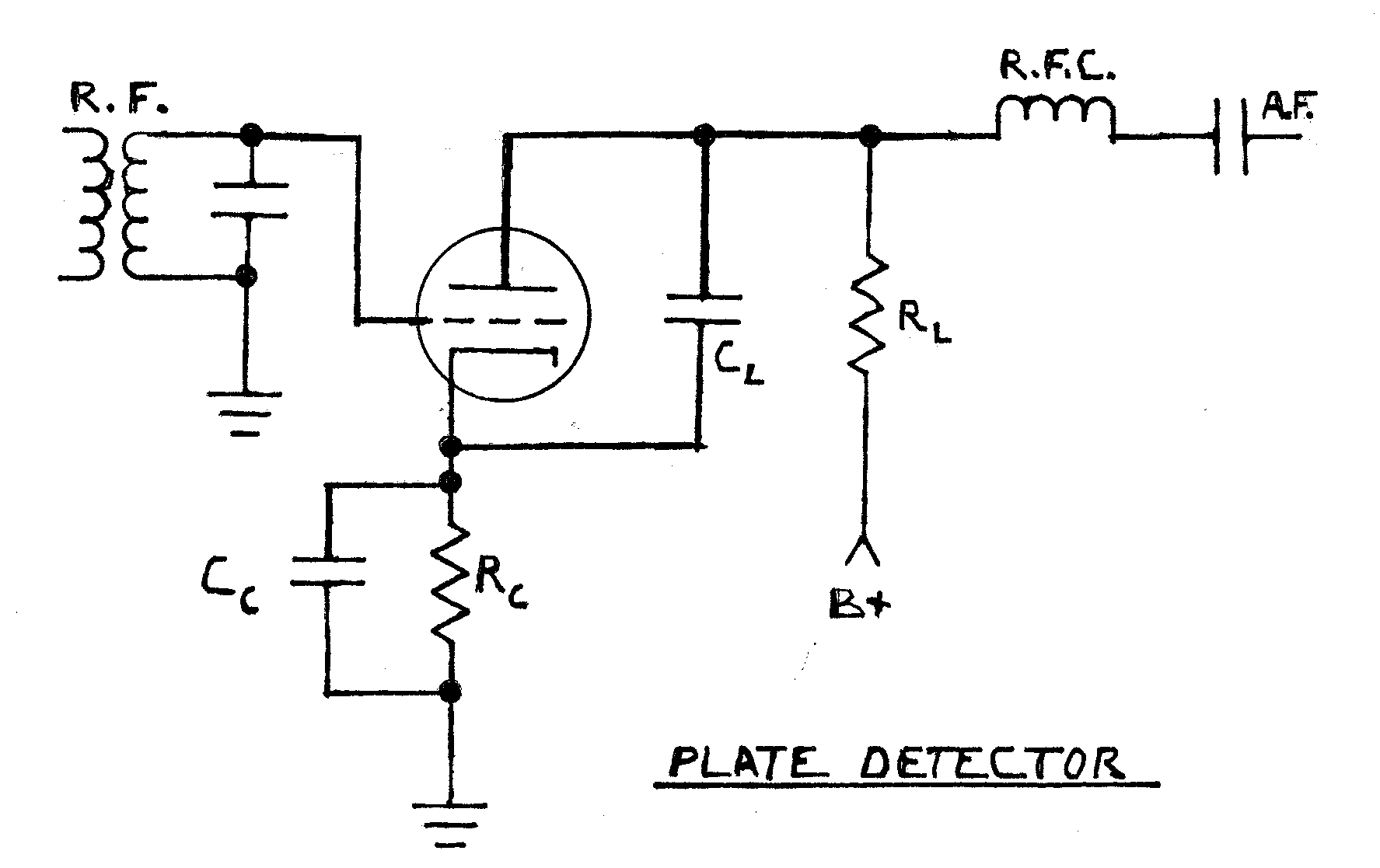 Schematic diagram of vacuum tube circuit for detection action by means of non-linear grid voltage versus plate current transfer function of a vacuum tube.